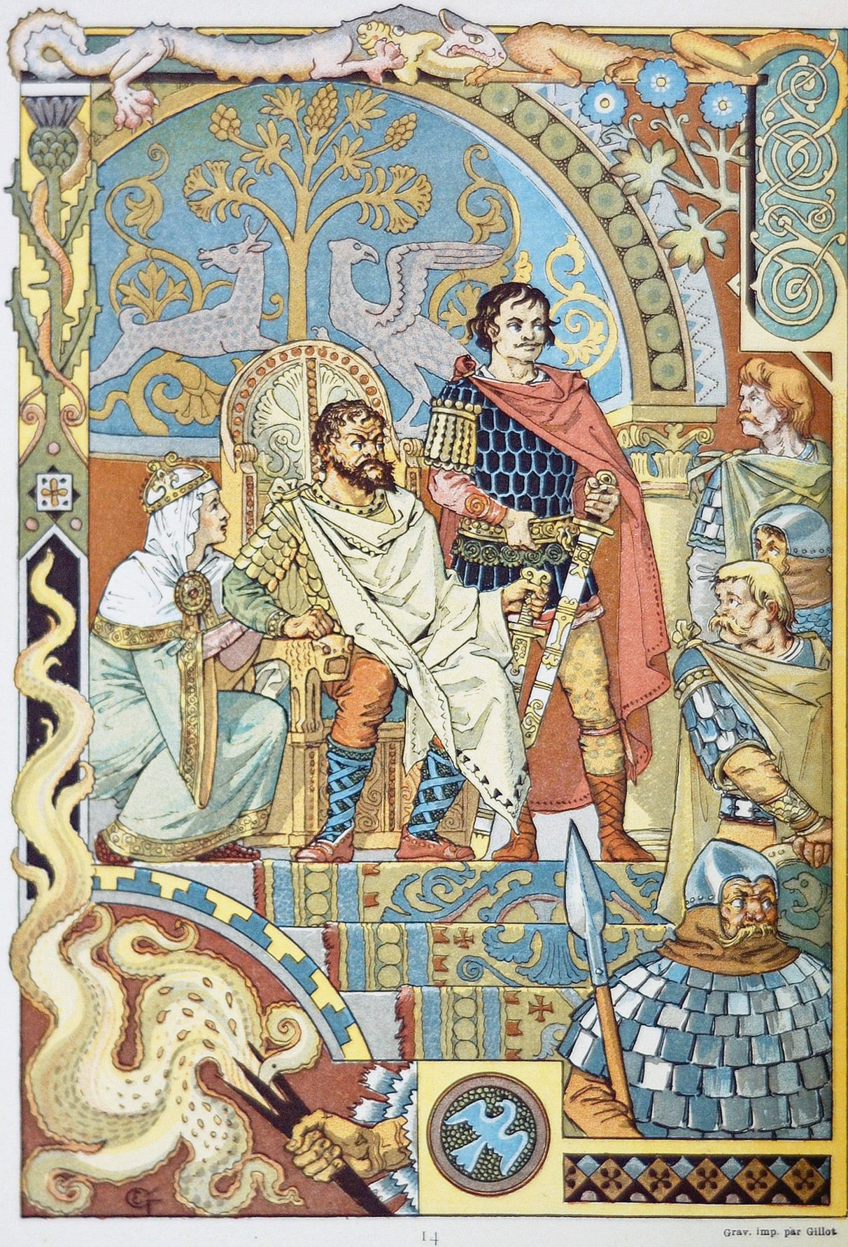 Histoire des Quatre Fils Aymon by Eugène Grasset, 1883, p. 14